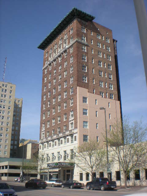 Kensington Tower